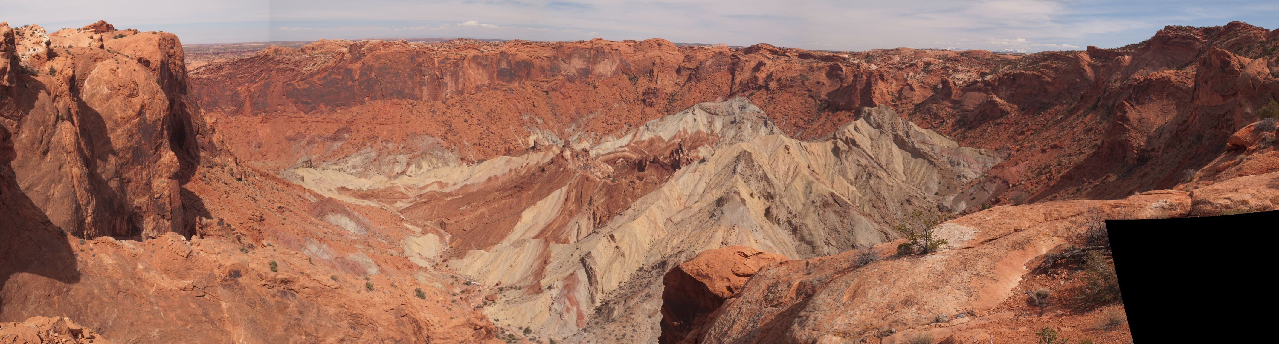 A panoramic photo of Upheaval Dome, taken from the second overlook point on the Upheaval Dome overlook trail in the Island in the Sky district of Canyonlands National Park, near Moab, UT.